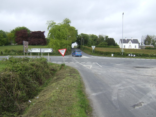 Drumlaghy Crossroads